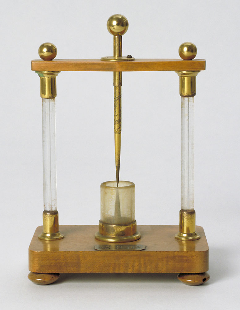 ArtistUnknownAuthorJean-Antoine NolletDescription